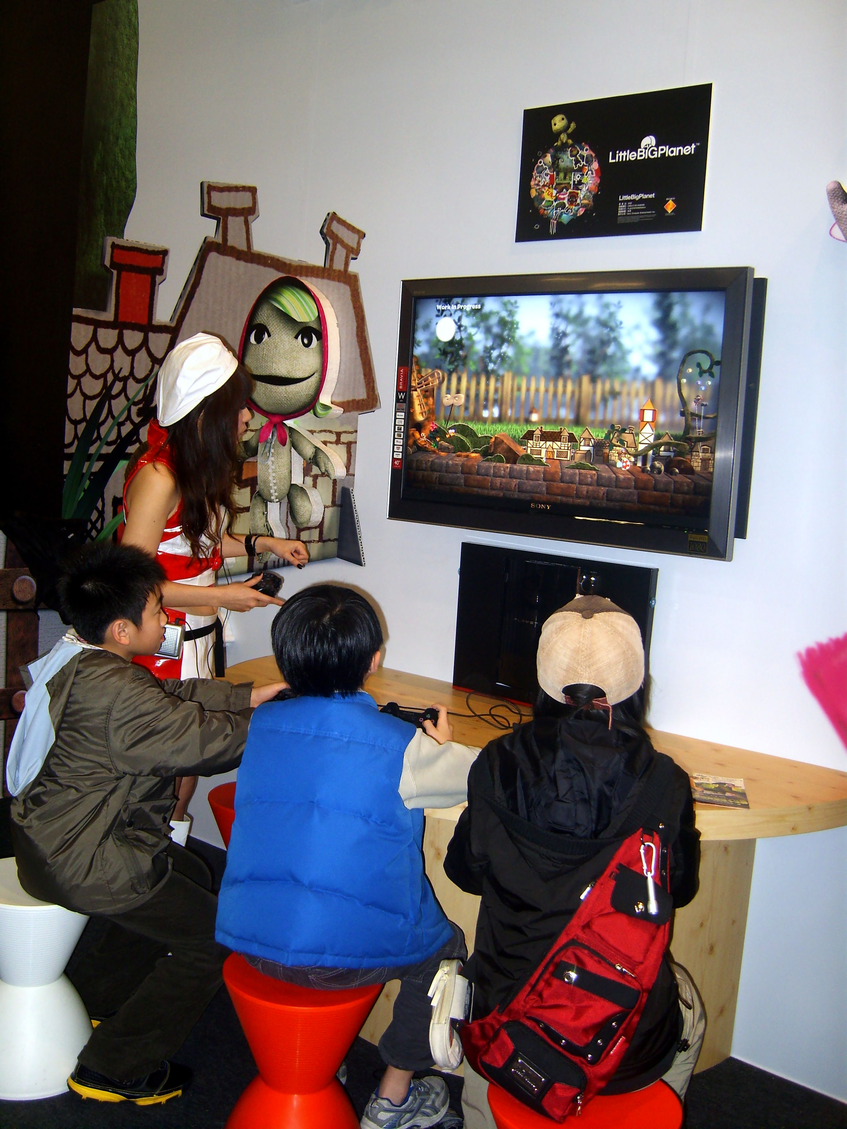 2008 Taipei Game Show: LittleBigPlanet Gaming Area by SCE Taiwan.